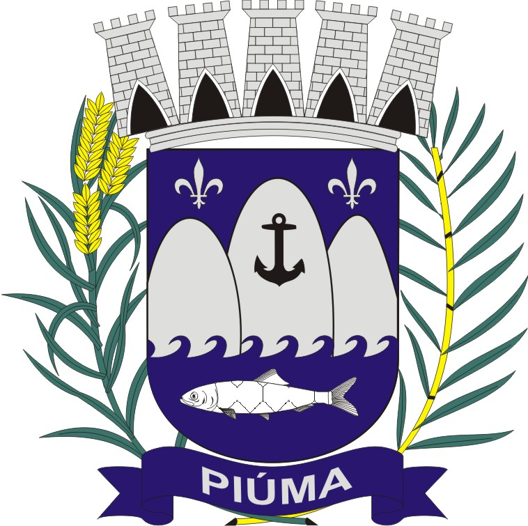 Coat of arms of Piúma, Espírito Santo, Brazil.